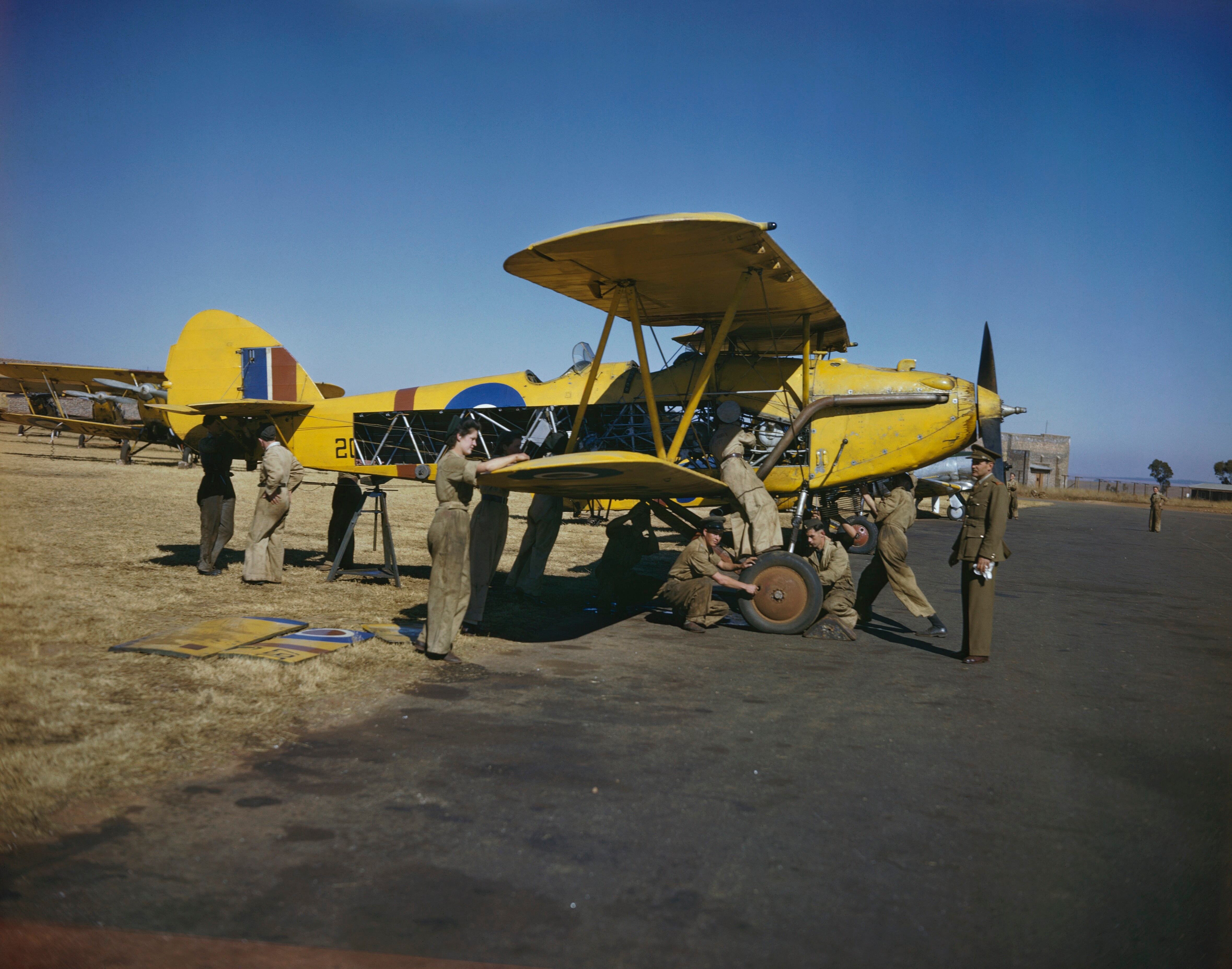 Women's Auxiliary Air Force: WAAF and RAF trainee ground crew work together on a Hawker Hart aircraft as part of the Commonwealth Joint Air Training Plan at Waterkloof near Pretoria, South Africa.